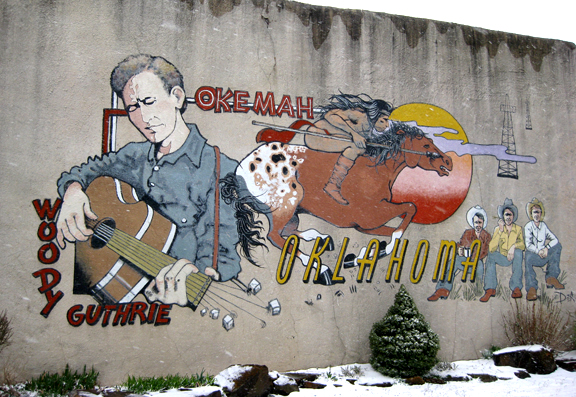 Mural at 510 West Broadway, Hwy. 56, downtown Okemah, Oklahoma, depicting Woody Guthrie and Okfuskee County history. Painted by DeAnna Mauldin in 1994.